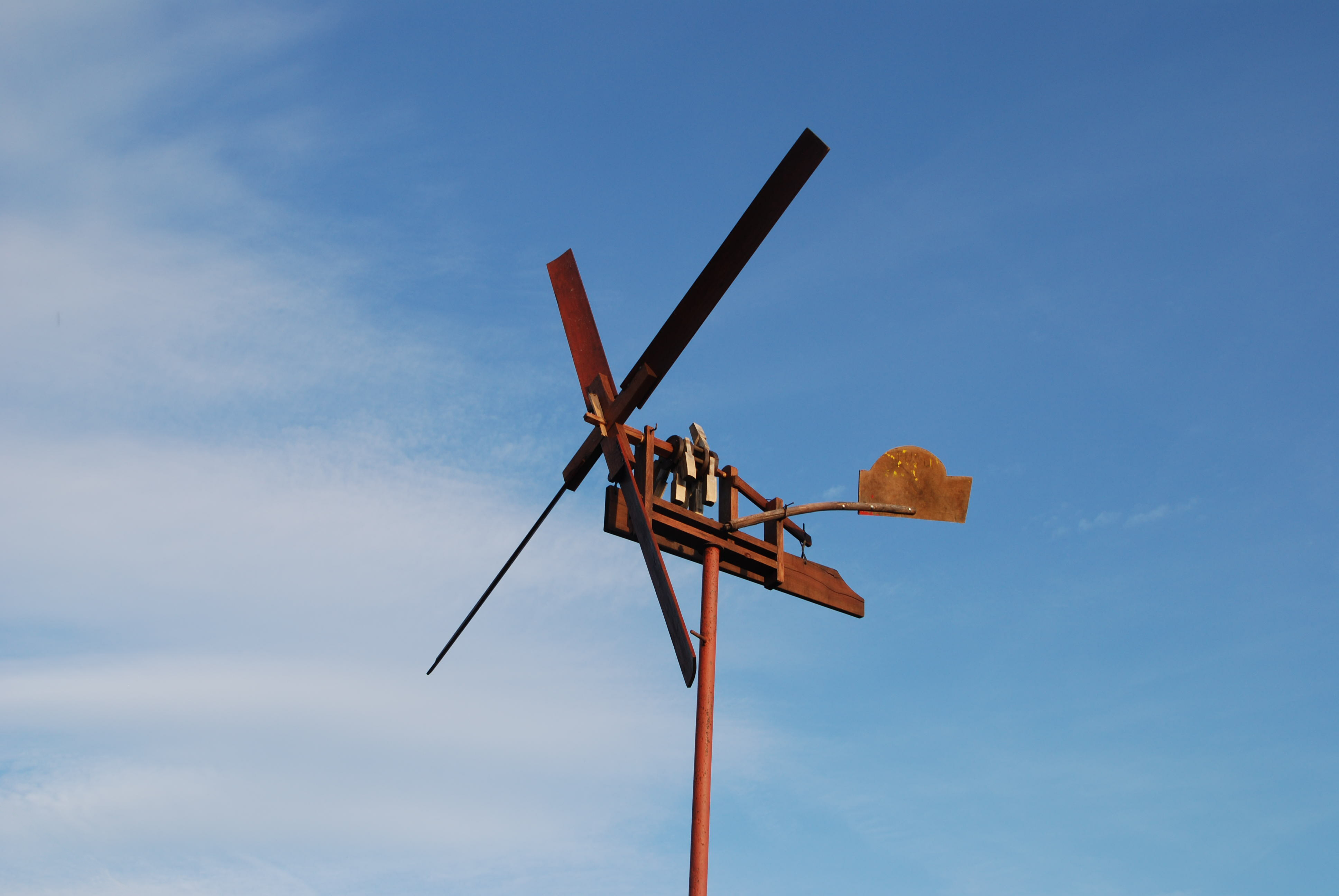 A klopotec in Pavla Vas (Municipality of Sevnica), southeastern Slovenia.